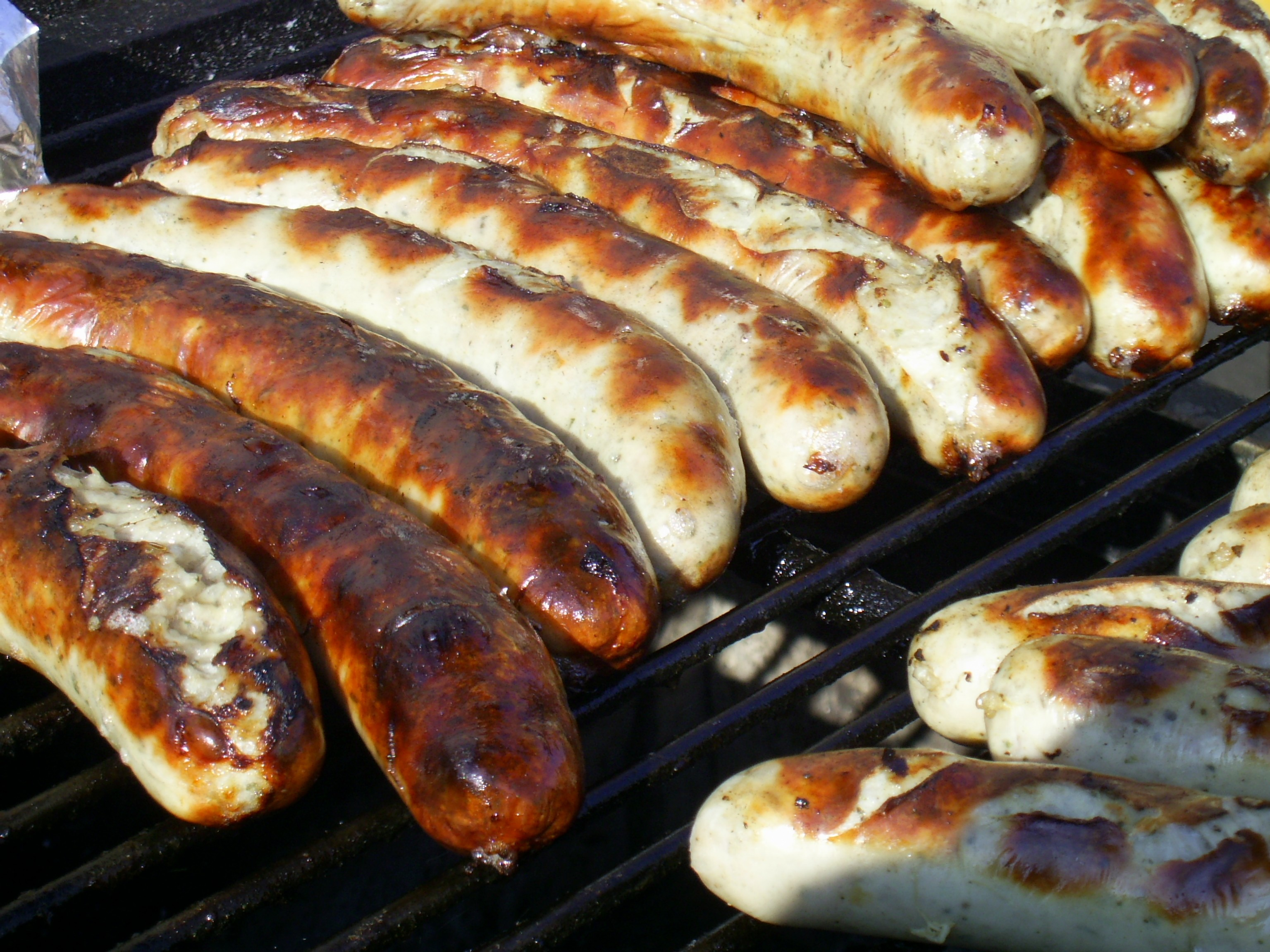 Original Thuringian sausage